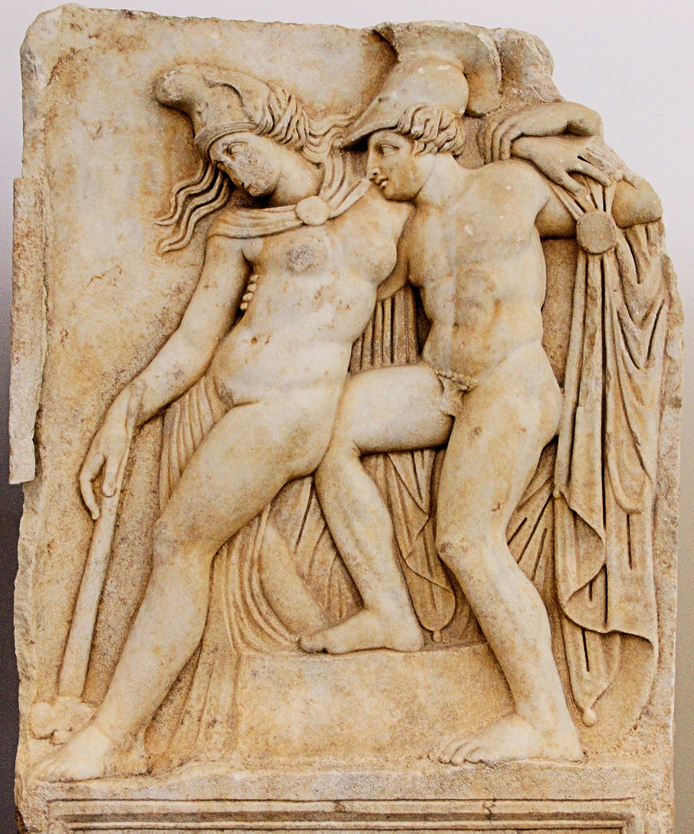 Achilles and Penthesilea This relief from the Sebasteion shows Achilles holding the dying Amazon Queen, Penthesilea. Penthesilea arrived at Troy to join the side of the Trojans fairly late in the battle, after Achilles had already killed Hector. Like Achilles (who was the son of the Greek hero/king Peleus and the nymph Thetis), Pehthesilea was a demi-goddess -- her mother was the Amazon Queen Otrera and her father was the god of War, Ares. Penthesilea killed many great Greek warriors in battle but fell to Achilles, who slew her even after she was down and asked for mercy. After her death, Achilles regretted his rash act since he had fallen in love with her, both because she was a kindred warlike spirit and because of her great beauty. After her death, the Amazons withdrew from the battle. Penthesilea was said to be the last of the great Amazon warrior queen